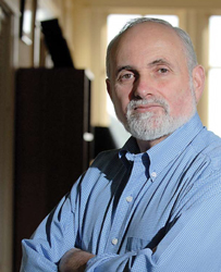 Picture of writer and creativity coach, Eric Maisel.